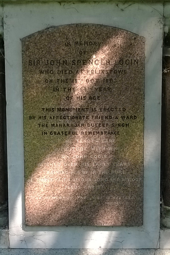 John Spencer Login tombstone Inscription on the memorial erected by Maharajah Duleep Singh Bahadur, G.C.S.I, the Last Emperor of the Punjab to Sir John Spencer Login. The inscription reads: In Memory of SIR JOHN SPENCER LOGIN Who died at Felixstowe, October 18th, 1863 In the 54th year of his age. This monument is erected, By his Affectionate Friend and Ward, The Maharajah Duleep Singh, In Grateful Remembrance of the Tender Care and Solicitude with which Sir John Login Watched over his early years, Training him up in the pure And simple faith of Our Lord and Saviour JESUS CHRIST "The memory of the just is blessed." Proverbs x. 7.